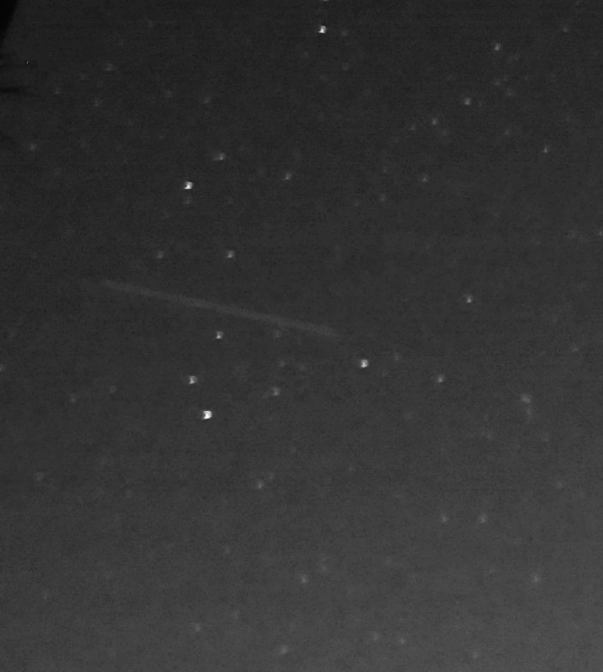 Hubble Space Telescope, 10-second time exposure May 4, 2018